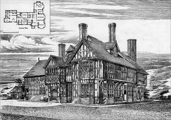 Architect's drawing of Rowden Abbey, Herefordshire, England